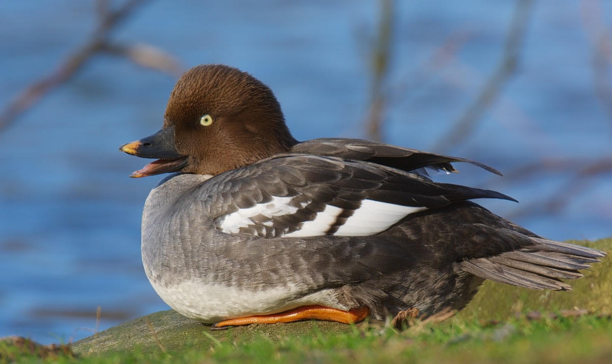 Common Goldeneye Bucephala clangula, female, Slottsskogen, Göteborg, Sweden